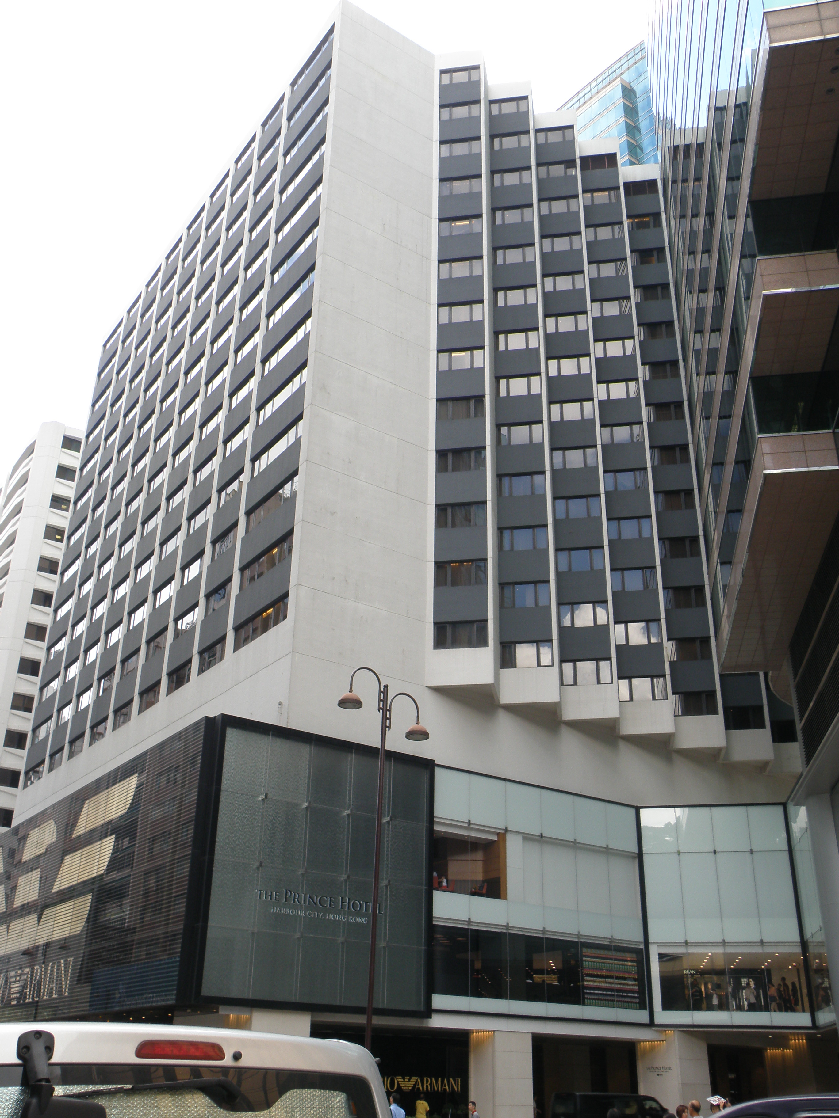 Prince Hotel, Hong Kong (Tsim Sha Tsui).